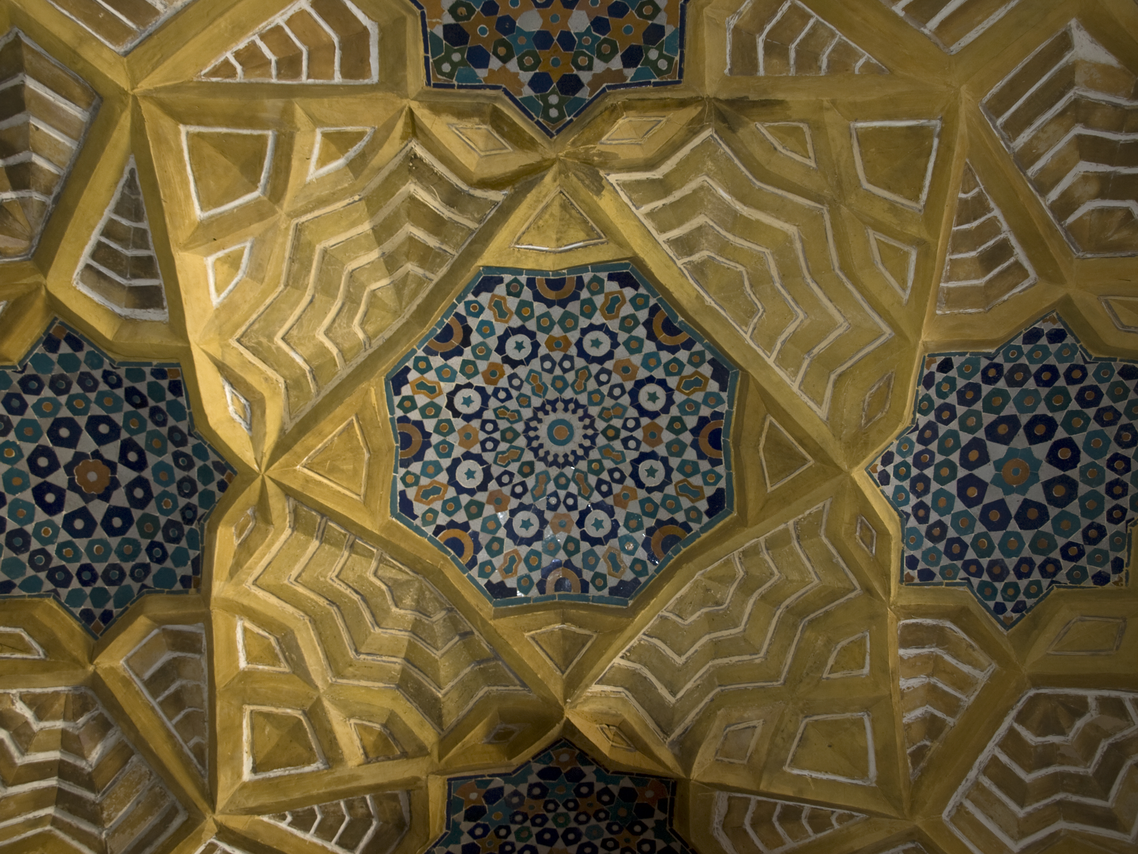 Ceiling in Kukeldash Madrassa, Bukhara